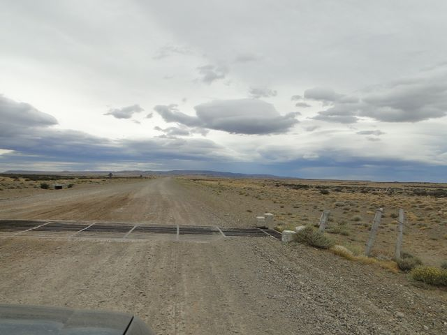 Ruta 40 (Argentina)